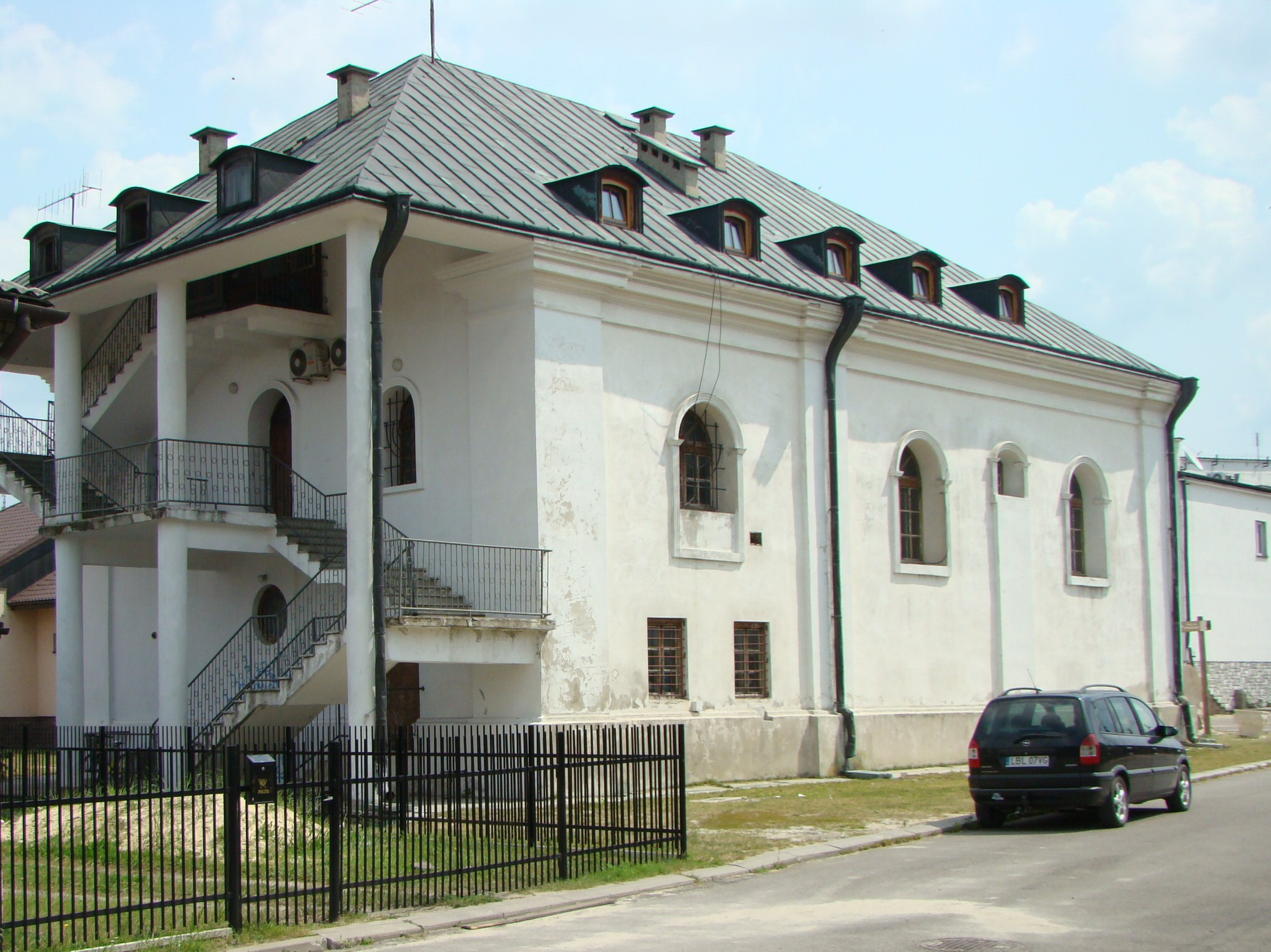 A former synagogue in Józefów Biłgorajski.